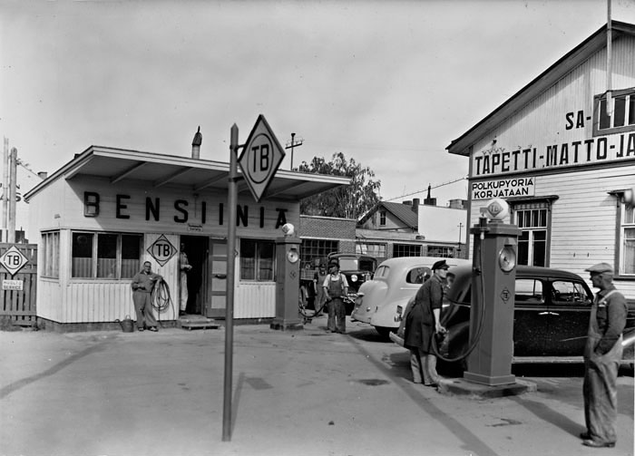 TB-gasolinestation in Salo